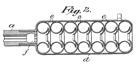 Clip of page 1 of US patent 916885, inventor Hiram Maxim; shows basic layout of suppressor, which has remained largely unchanged to this day.